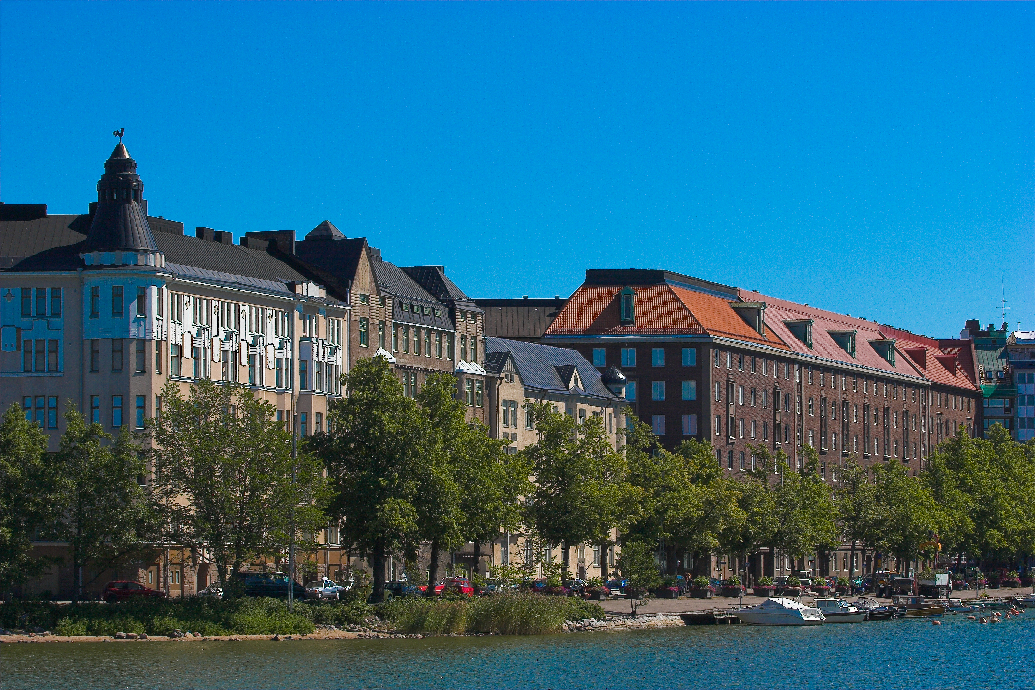 The Siltasaari bank in Helsinki.